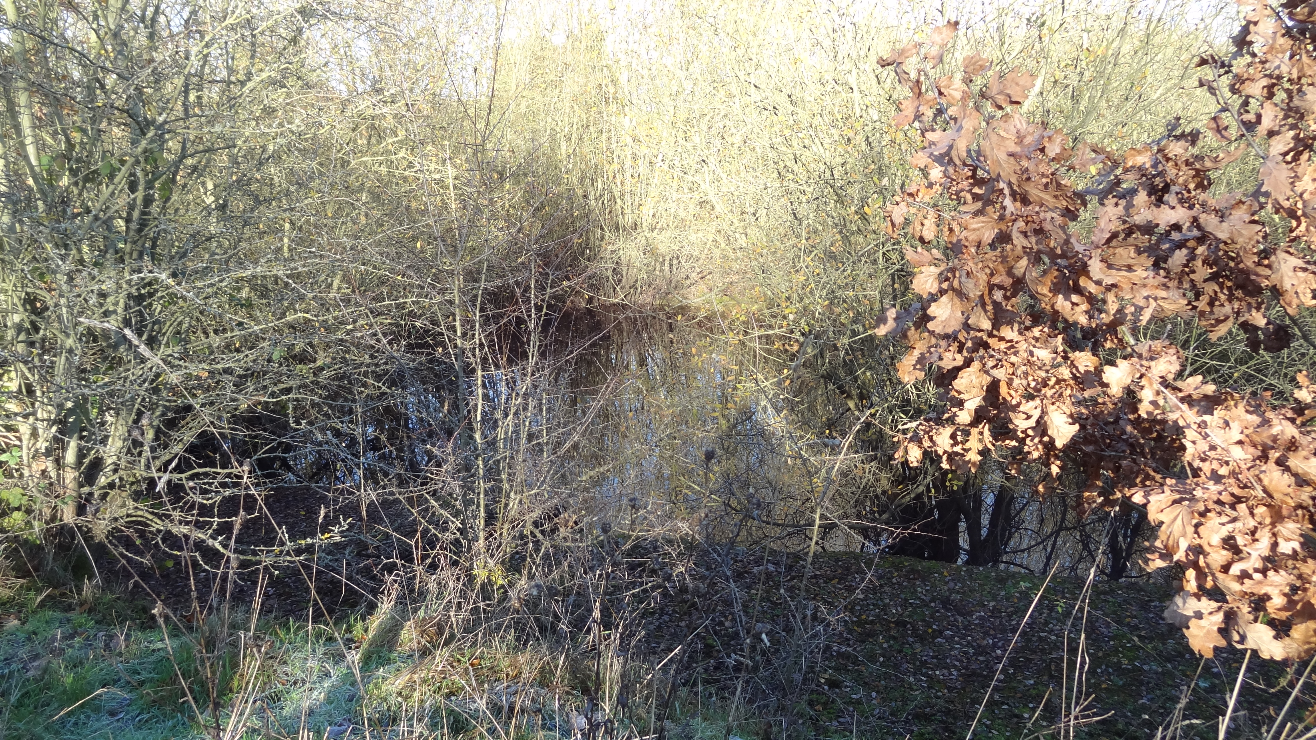 Moor Hill Quarry, West, a geological Site of Special Scientific Interest in How Wood, Hertfordshire, England